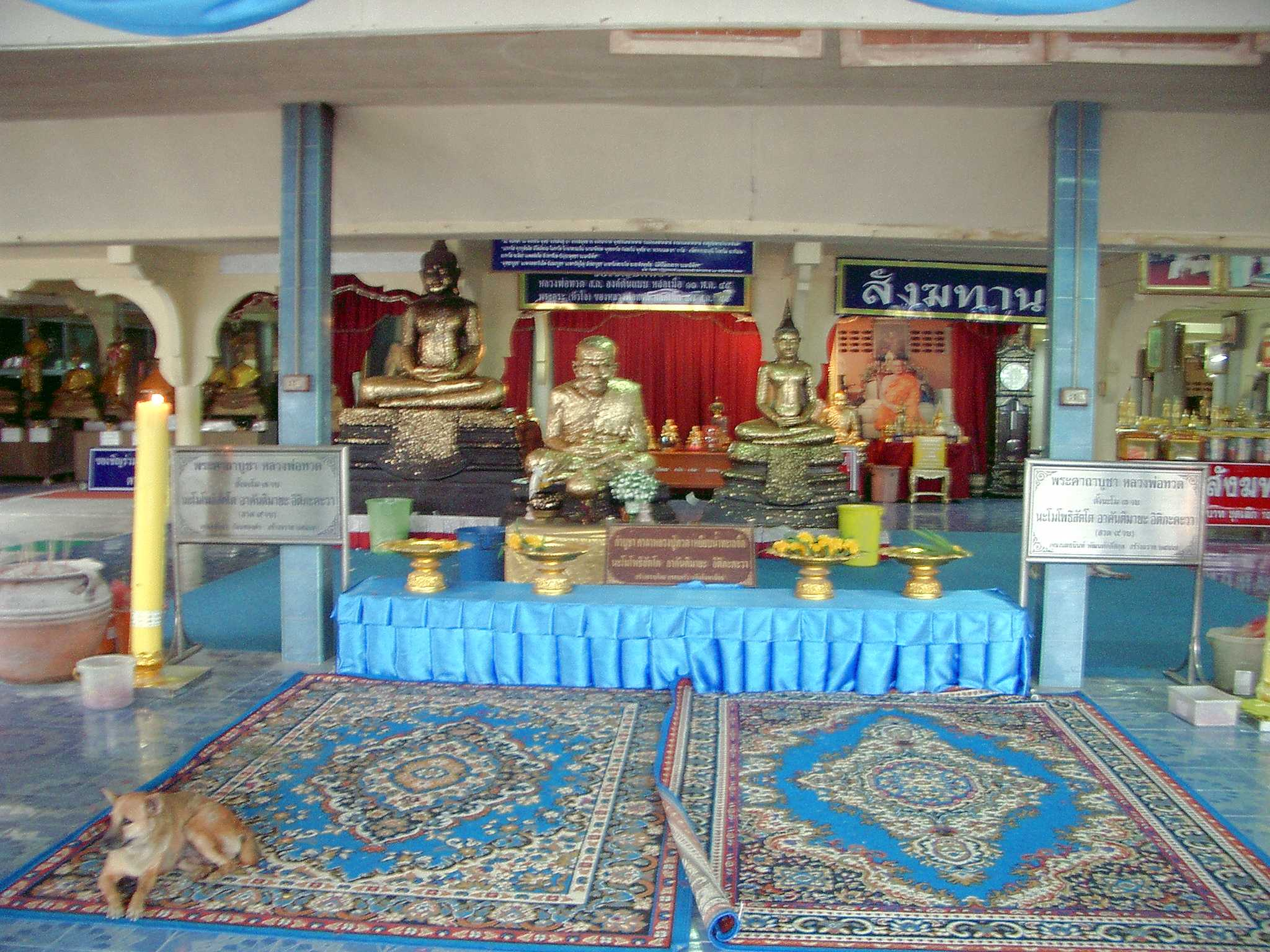 Main Hall of Wat Huai Mongkhon, Prachuap Khiri Khan Province, Thailand